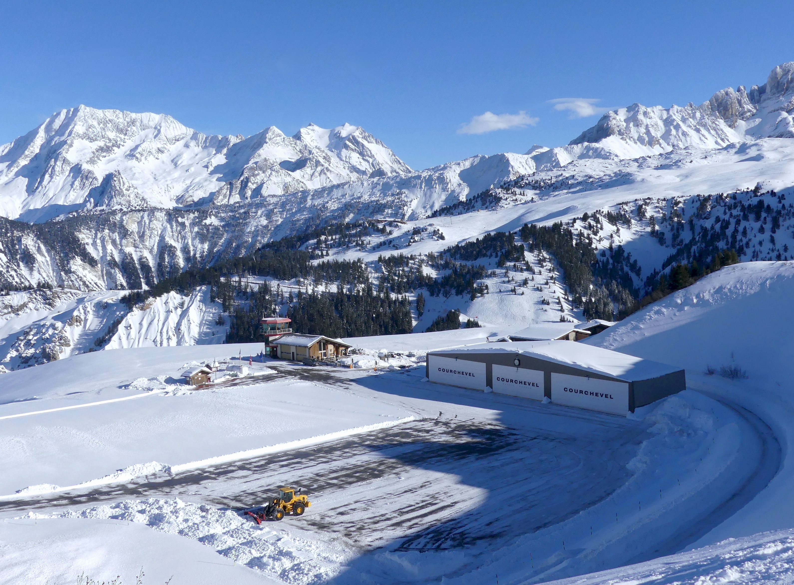 Sight, in winter, of Courchevel altiport (at 2,008 meters high), where a snowplough is clearing the snow from the tarmac, in Savoie, France.